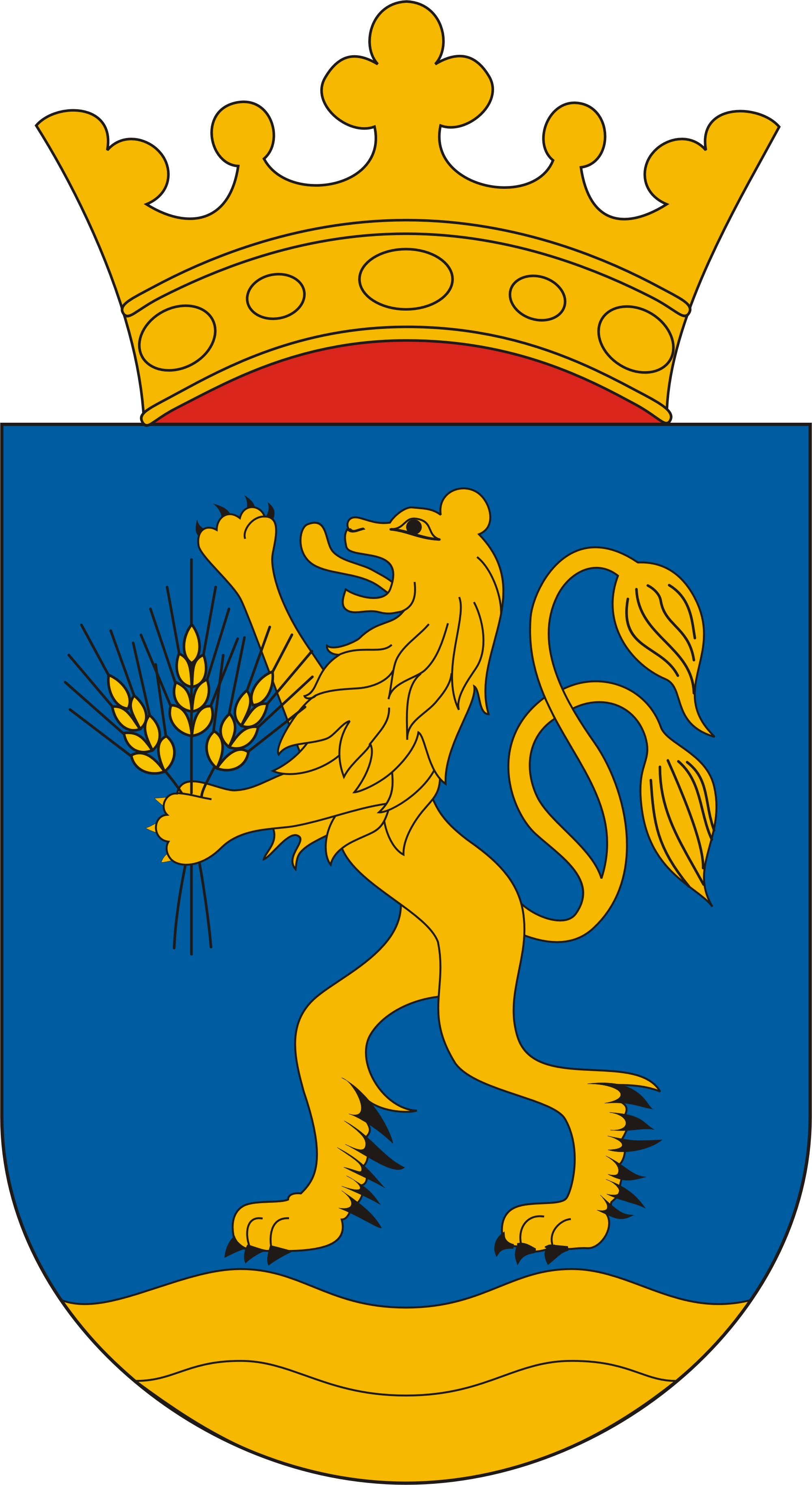 Coat of arms of Bük, Hungary